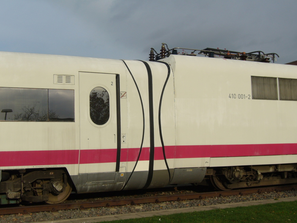 Form-fit connection between a powerhead and a coach of the InterCityExperimental.